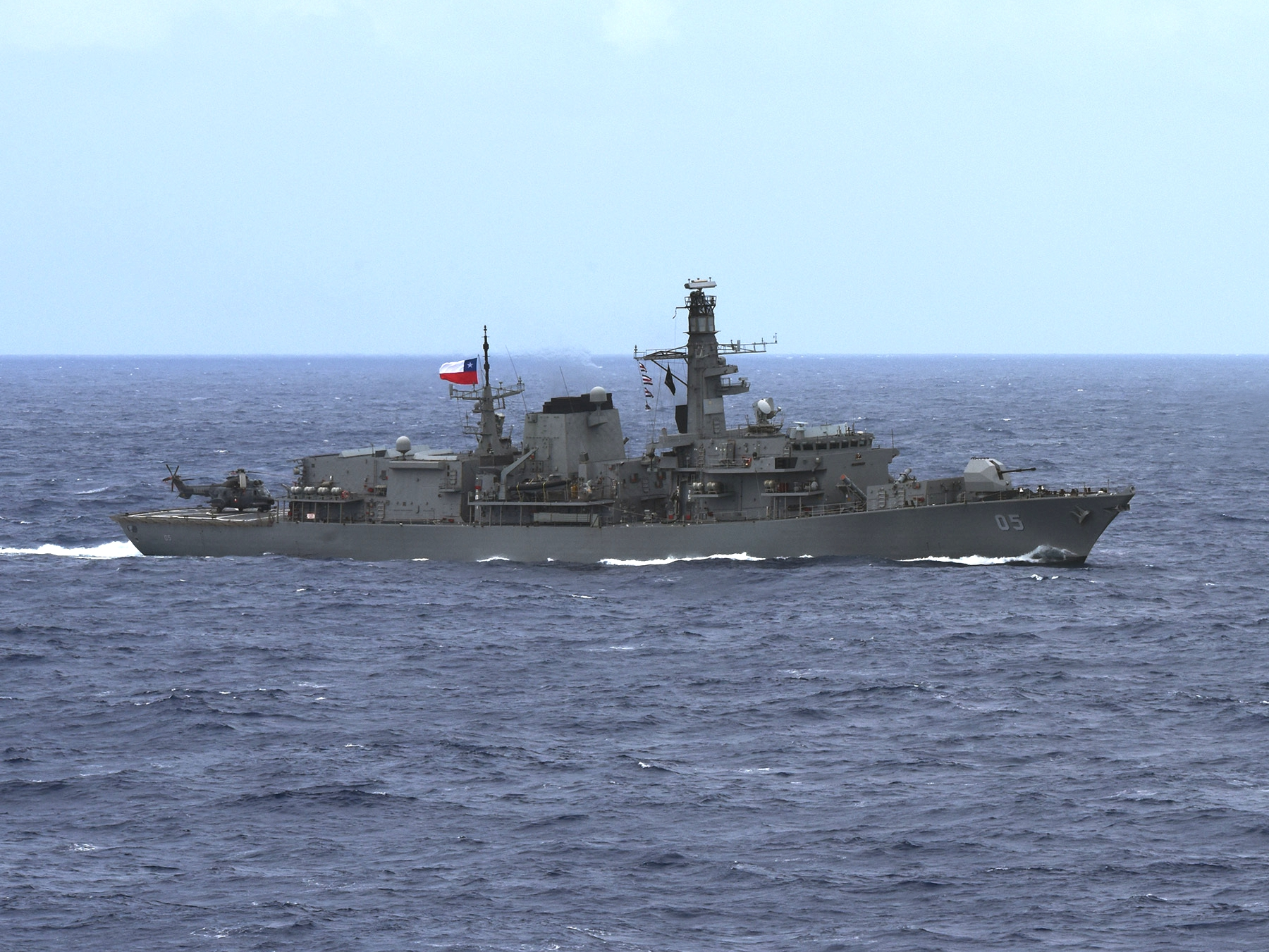 The Chilean Navy Type 23 frigate Almirante Cochrane (FF-05) underway in the Pacific Ocean to participate in Rim of the Pacific 2016.